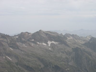 Mont Perdiguero : fifth summit of Pyrenees